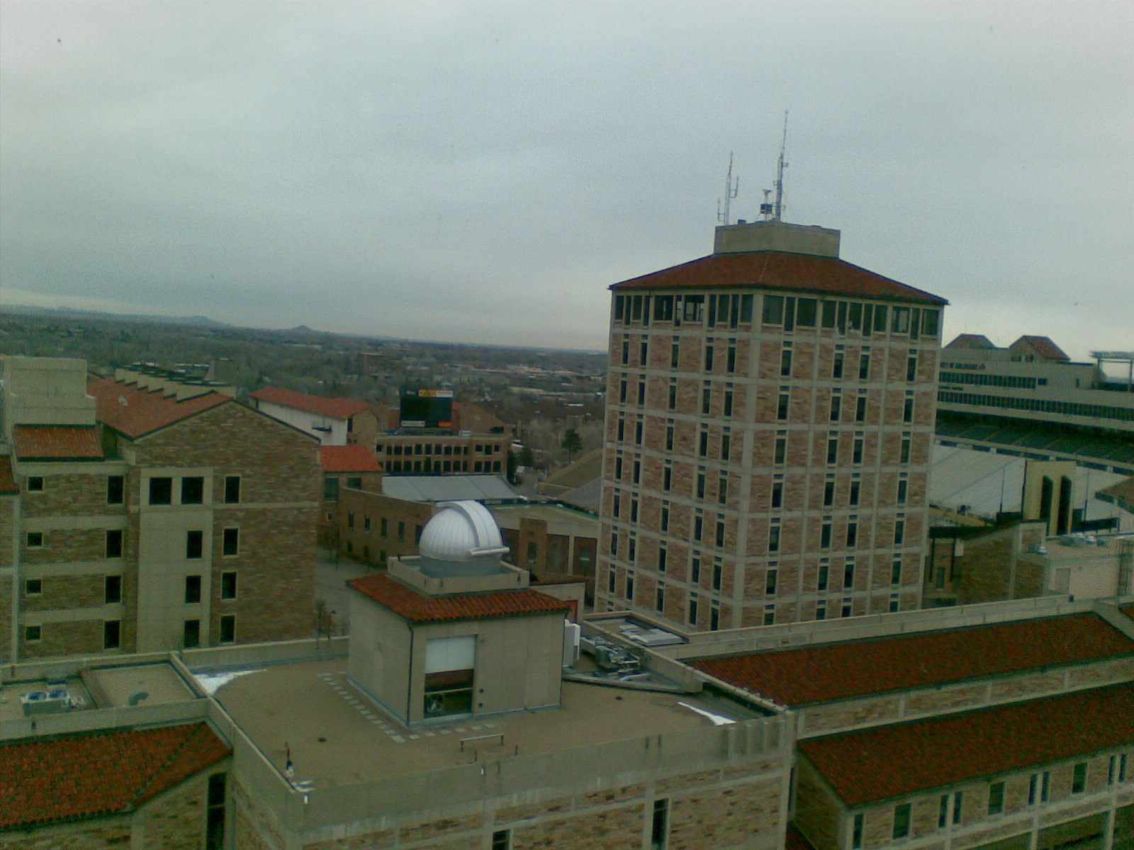 George Gamow tower, as seen from the JILA tower. The stands of Folsom Field are visible in the background.